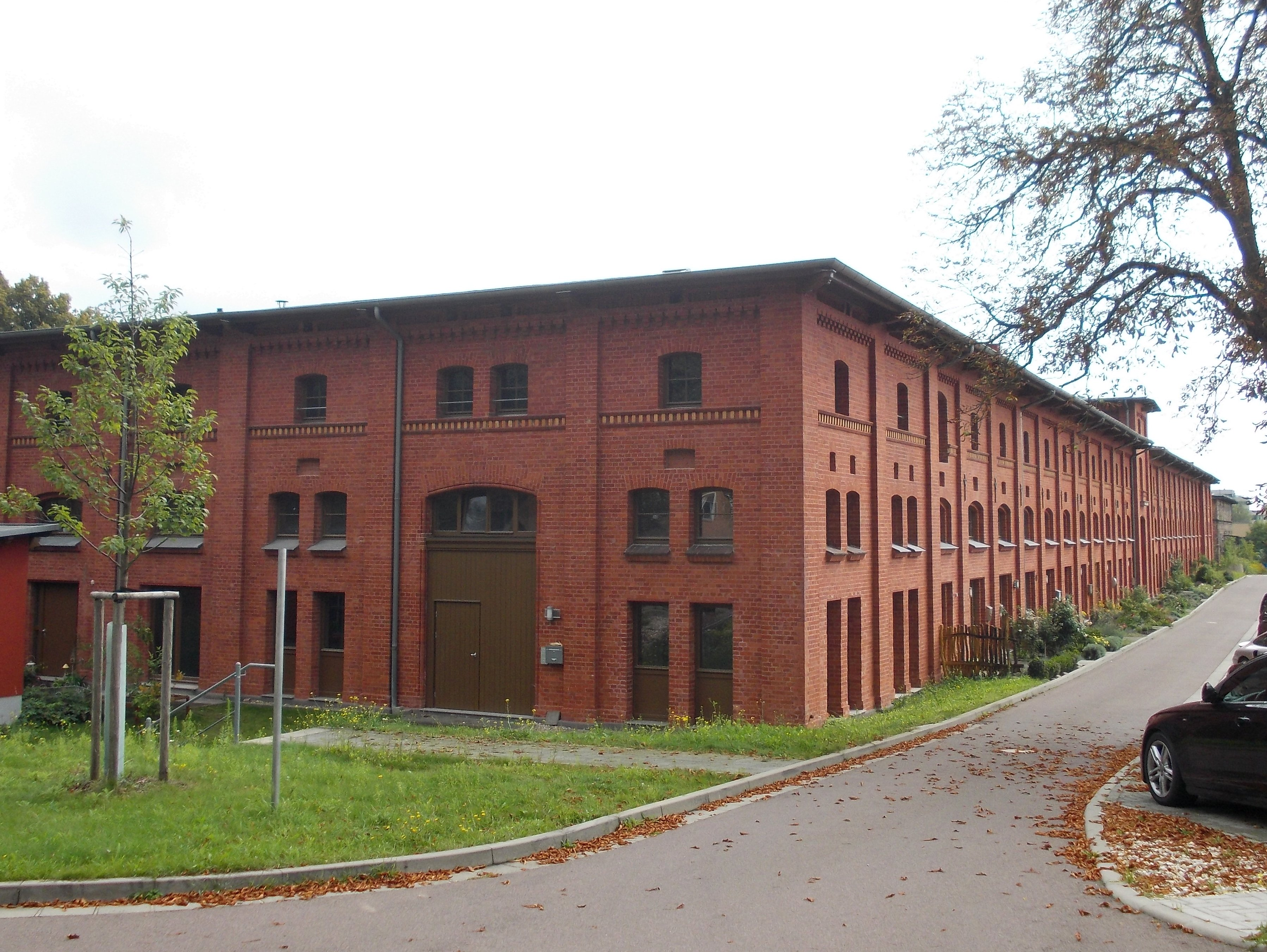 Former Kreuz (or Kreuzvorwerk) stud farm in Halle/Saale (Saxony-Anhalt), today transformed into a residential building